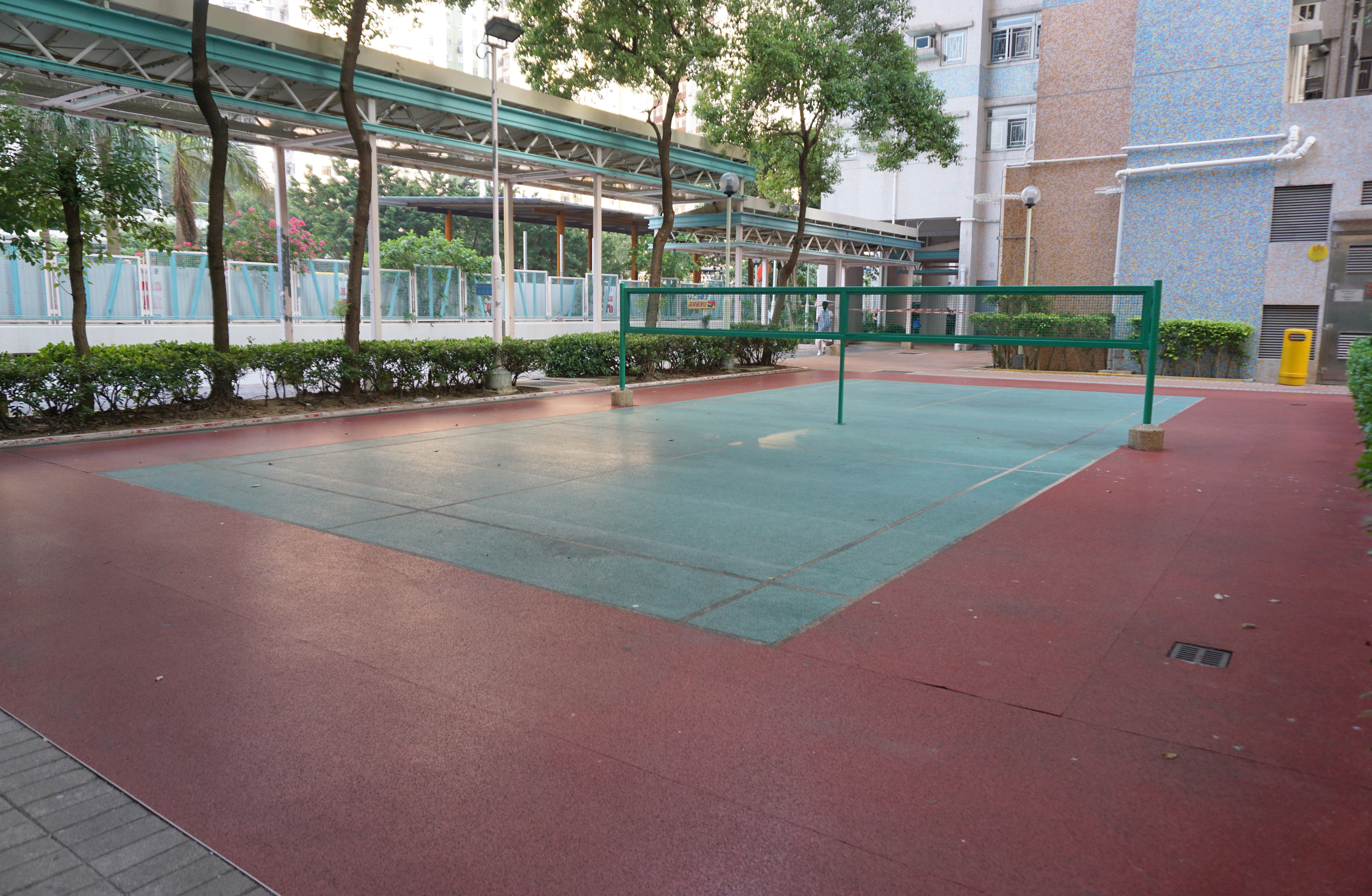 Aldrich Garden in Shau Kei Wan, Hong Kong.